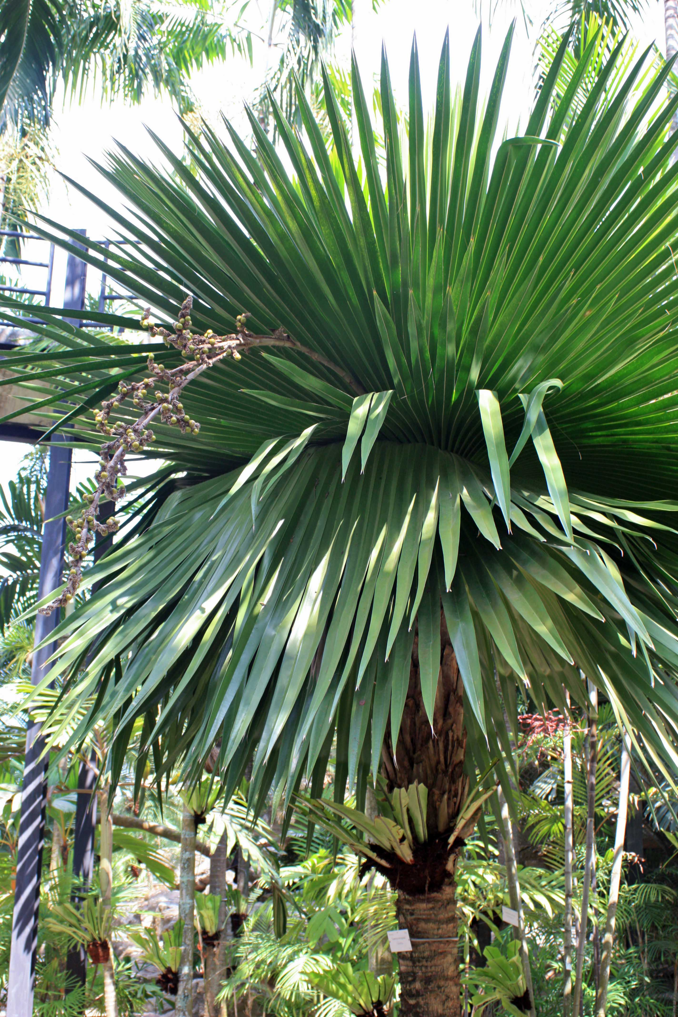 Copernicia macroglossa, Nong Nooch Tropical Botanical Garden, Thailand.